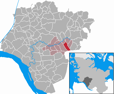 This map shows the area of the municipality Moordiek in the Kreis (district) Steinburg, Schleswig-Holstein, Germany.